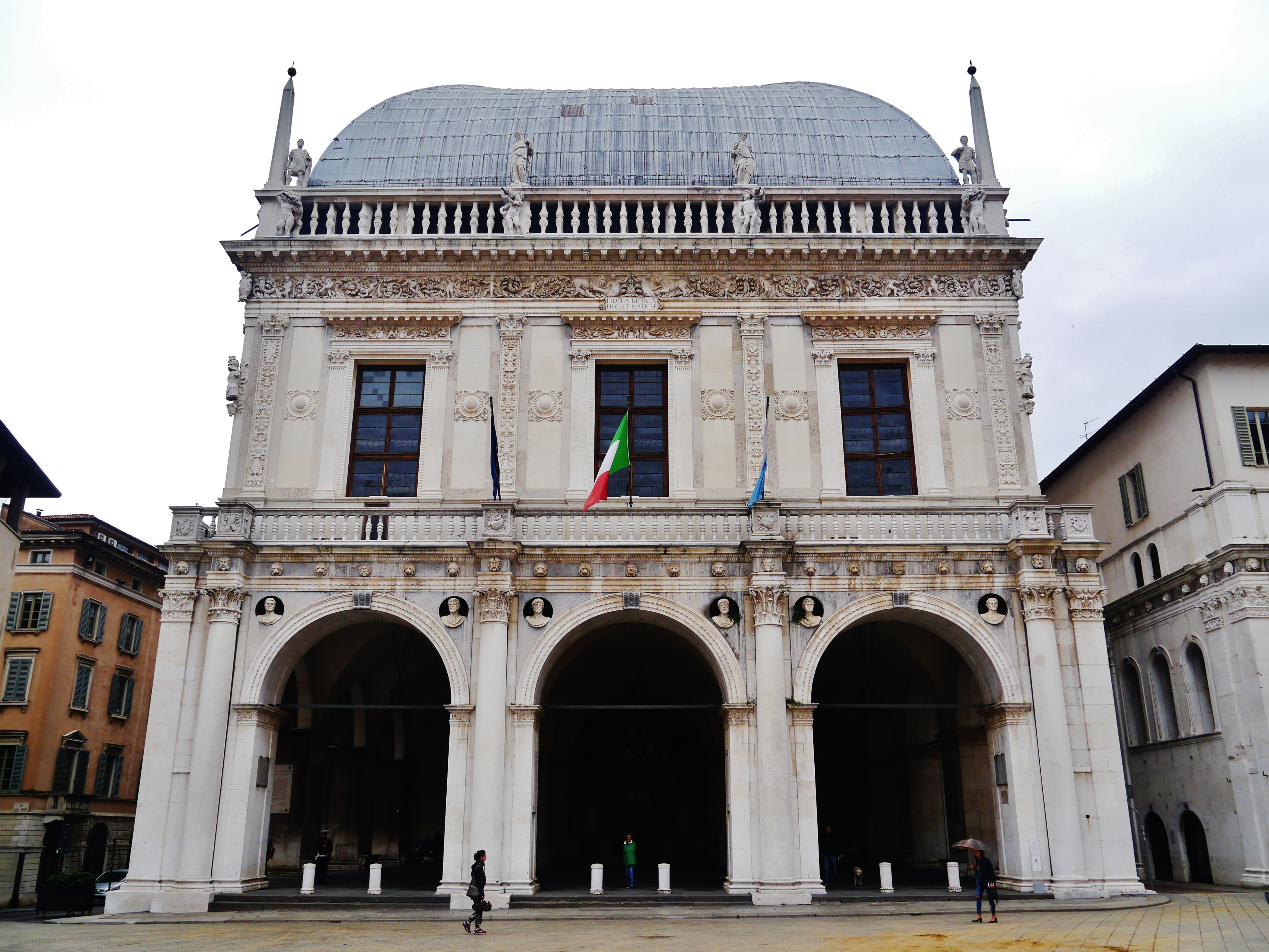 Loggia Palace at the Loggia Square, Brescia, Province of Brescia, Region of Lombardy, Italy